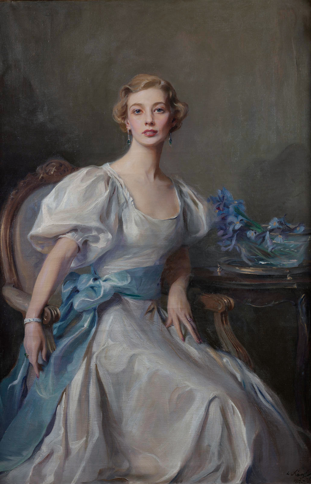 Cecile Rankin oil on canvas 152.5 x 102 cm signed b.r.: de Laszlo/1937